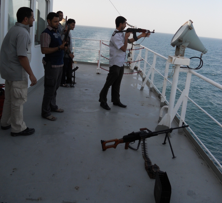 Armed guard escort on a merchant ship. These guards can deter and even kill to defeat a piracy attack.